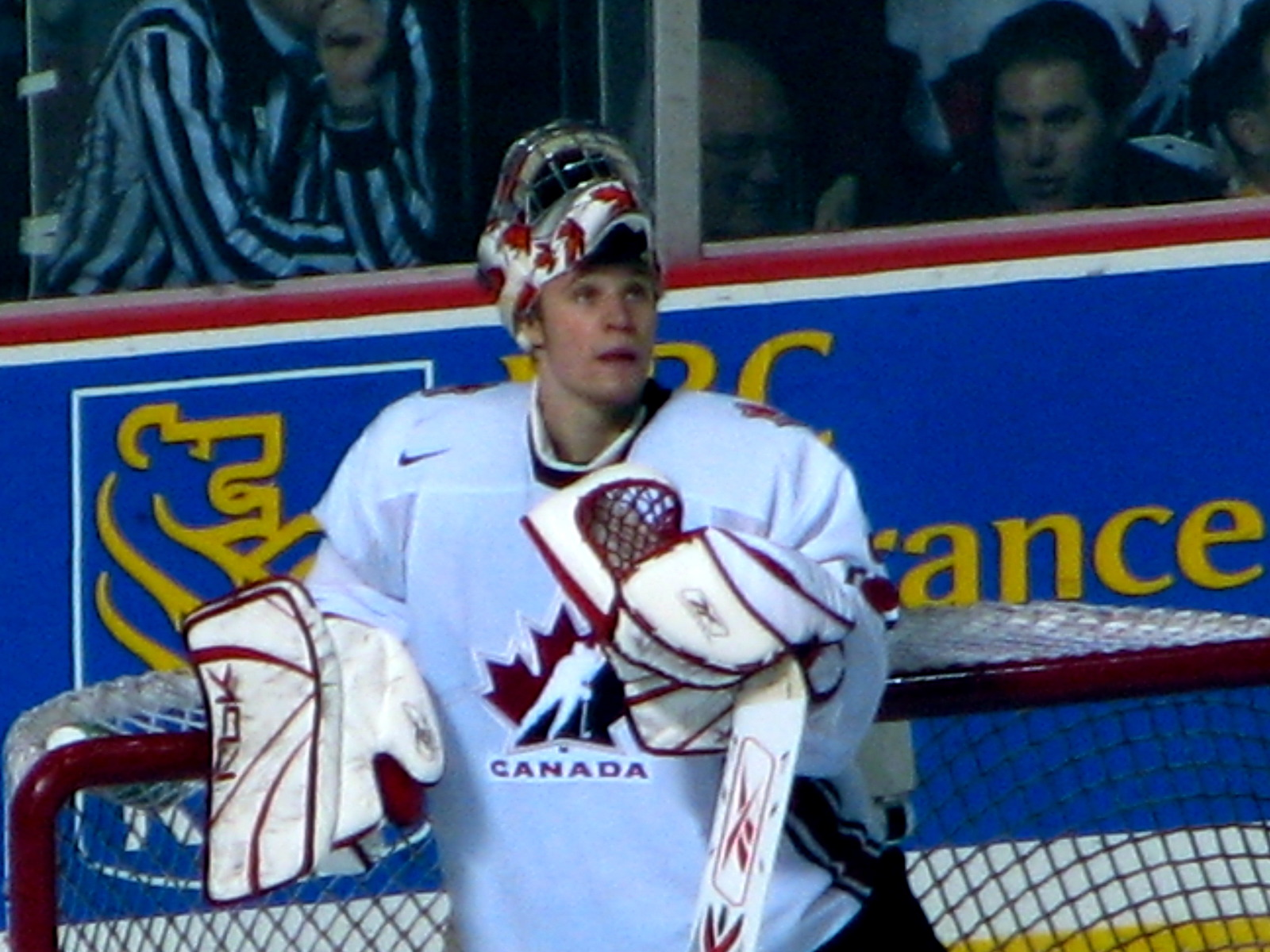 Justin Pogge watching the dust up in 4-0 win vs Norway BTW, taken from nosebleed seats in entire opposite corner of pacific coliseum